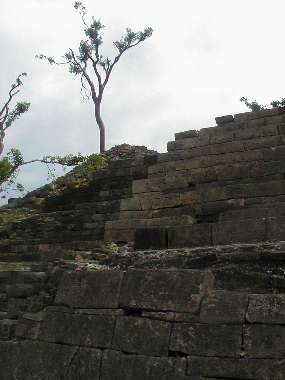 Stepped structure, Lubaantun Archeological Reserve, Belize. Photo by Gerry Manacsa, February 2002.